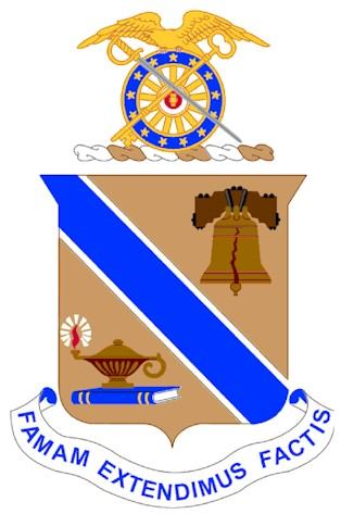 Quartermaster Center and School Device from